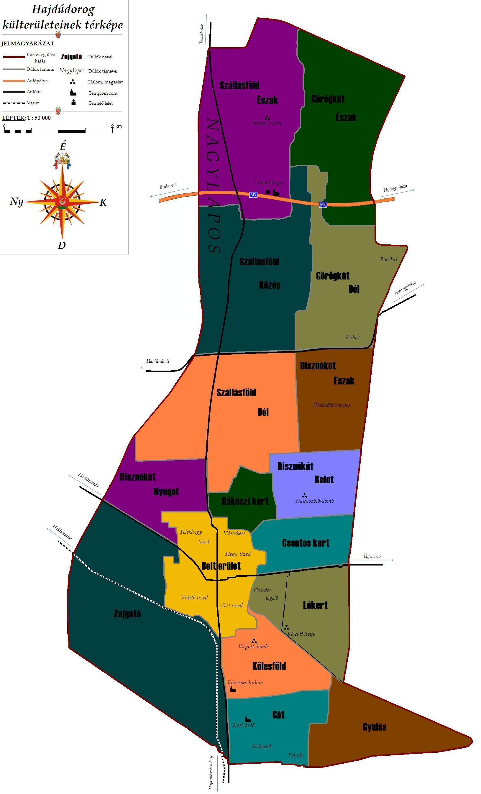 Map of the whole territory of Hajdúdorog. The map contains the outer districts, their traditional name of the town instead of being a street-map of Hajdúdorog. The map is entirely my own work, however it's based on a picture.